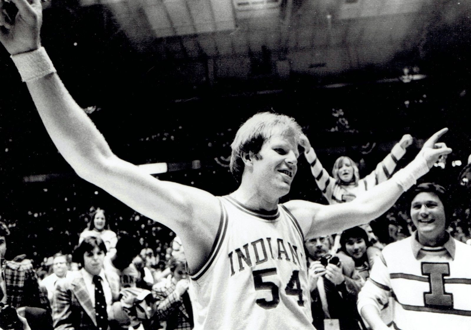 1976 Wire Photo Indiana Hoosiers Basketball Kent Benson wins NCAA Championship